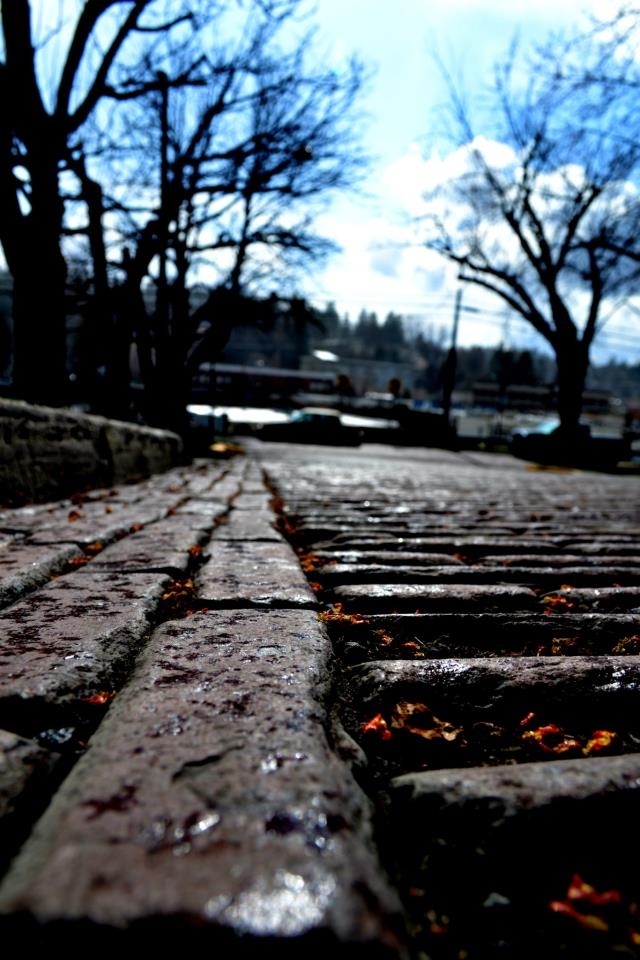 Image courtesy of Sarah Eystad, Washington State University. Detail view of NE Maple Street (South view)